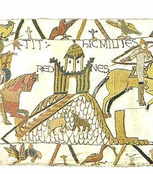 Bayeux Tapestry Scene 18b